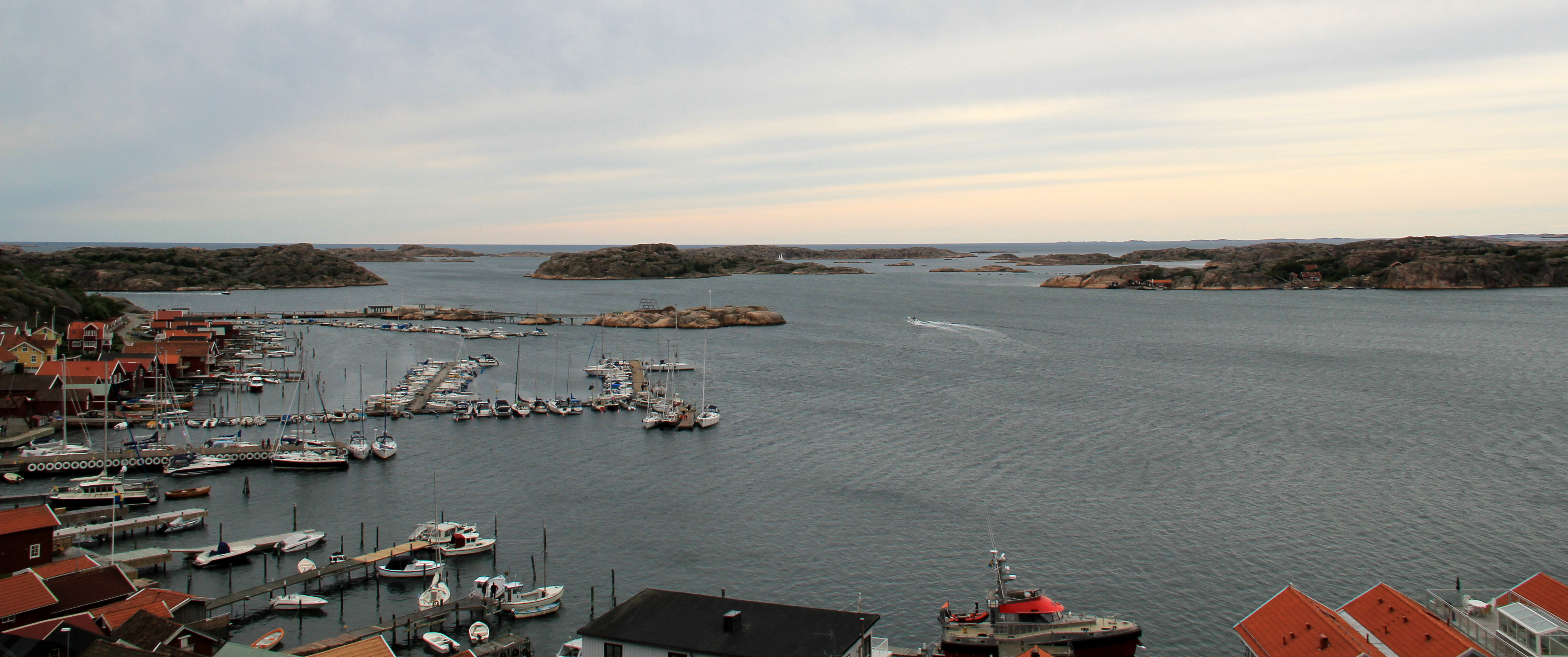 Bottnafjorden towards west, and Bovallstrand